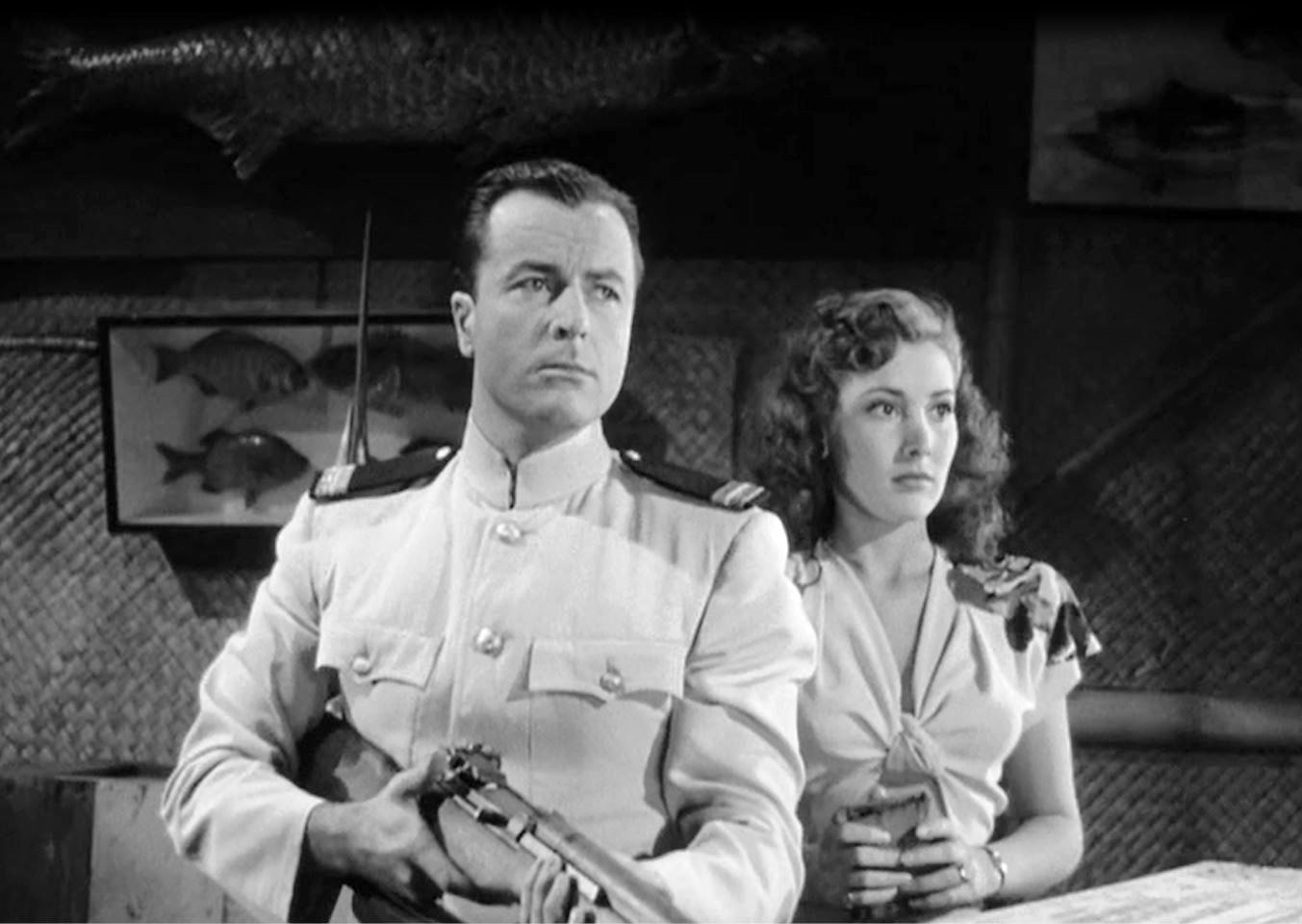 Low resolution screenshot of Joseph Allen (credited as Joe Allen Jr.) as George Brace and Gloria Warren as Rona Simmonds from the American film Dangerous Money (1946). The film is in the public domain due to the omission of a valid copyright notice on its original prints.